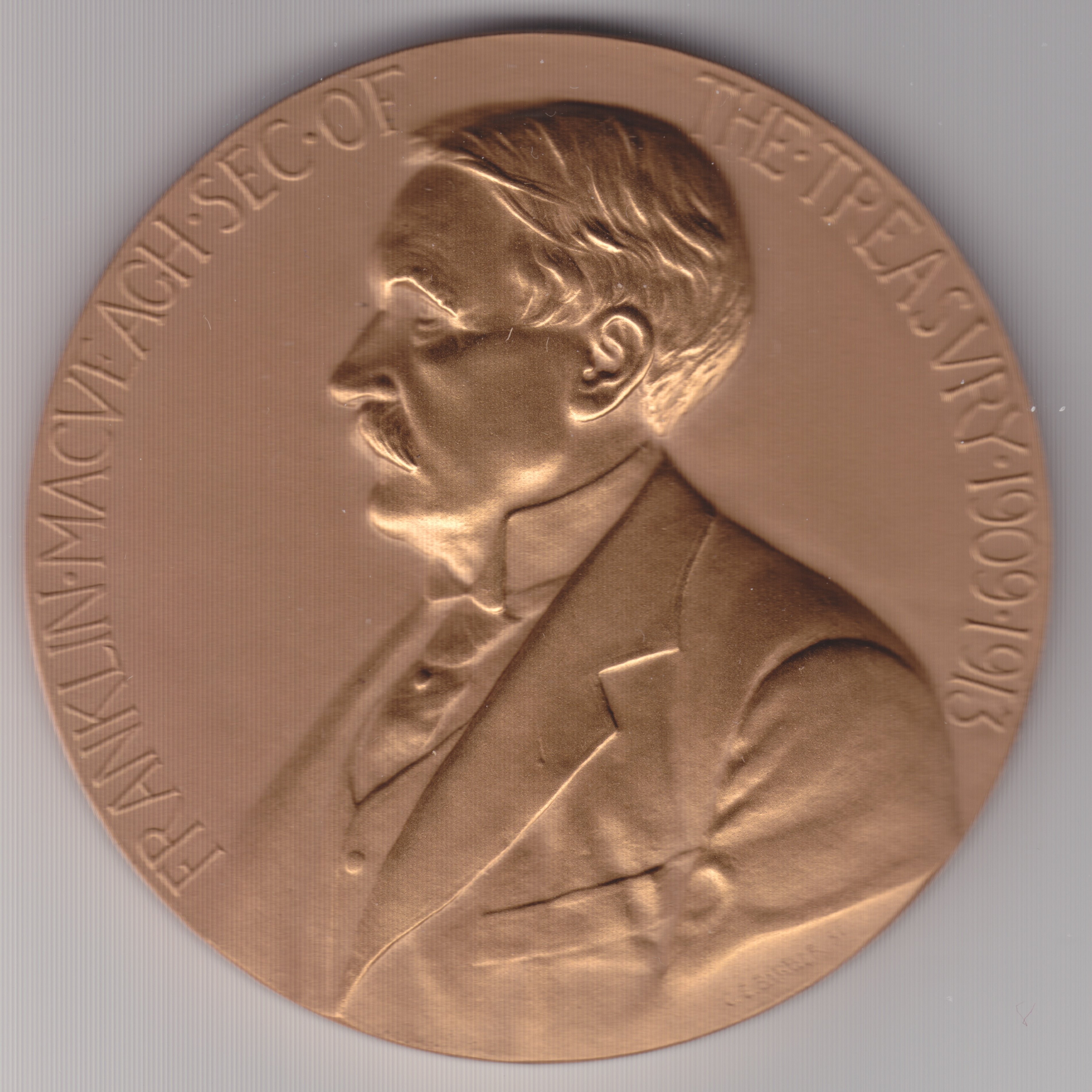 Medal produced by US Mint and designed by George Morgan, Assistant Engraver (later Chief Engraver) of the Mint of Franklin MacVeagh, Secretary of the Treasury, 1909-1913.